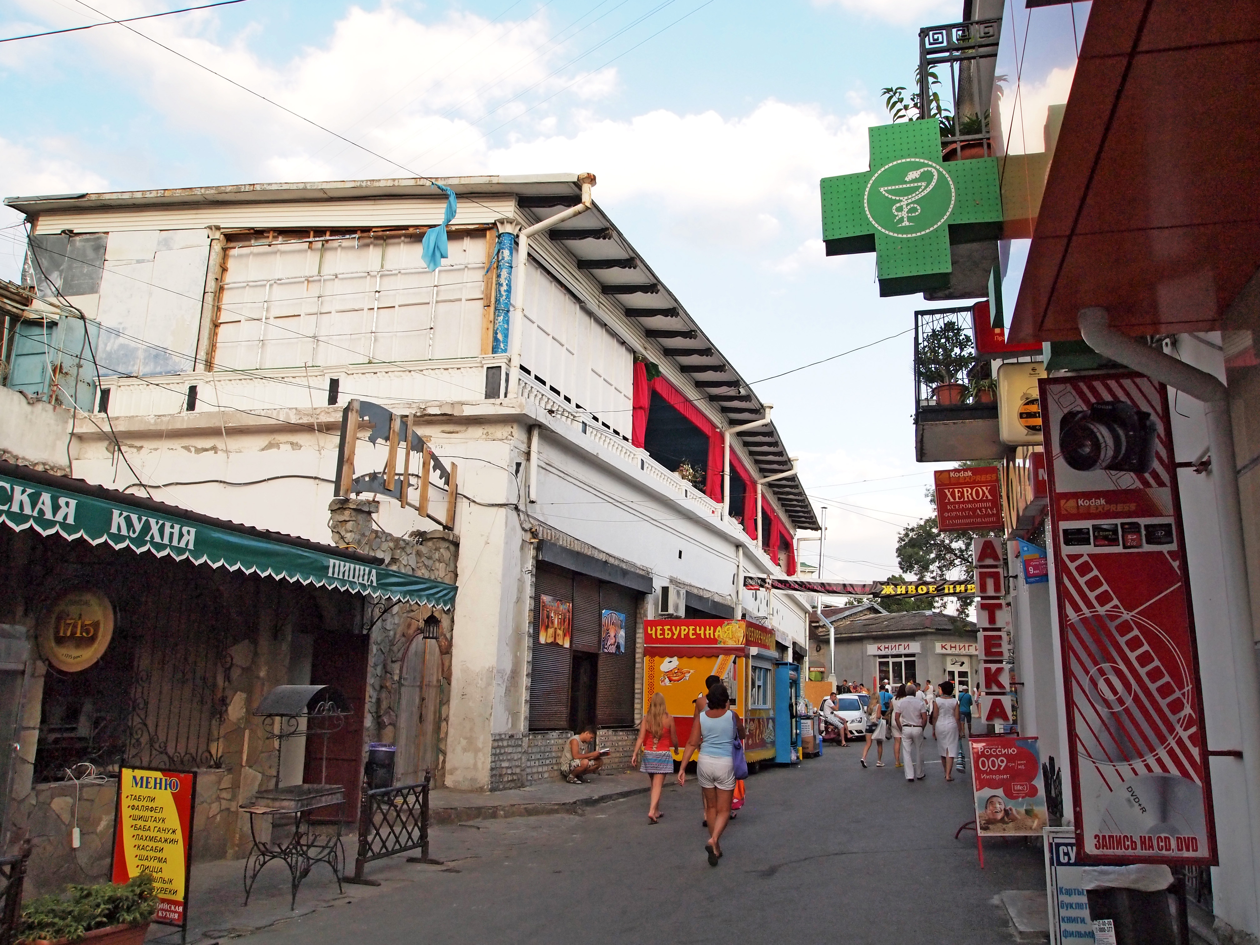 Center of Alupka. This photograph was taken with a Olympus E-PL1.